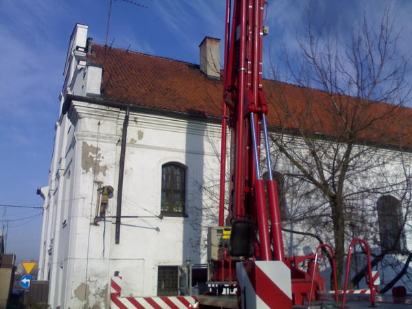 Synagogue in Lubraniec